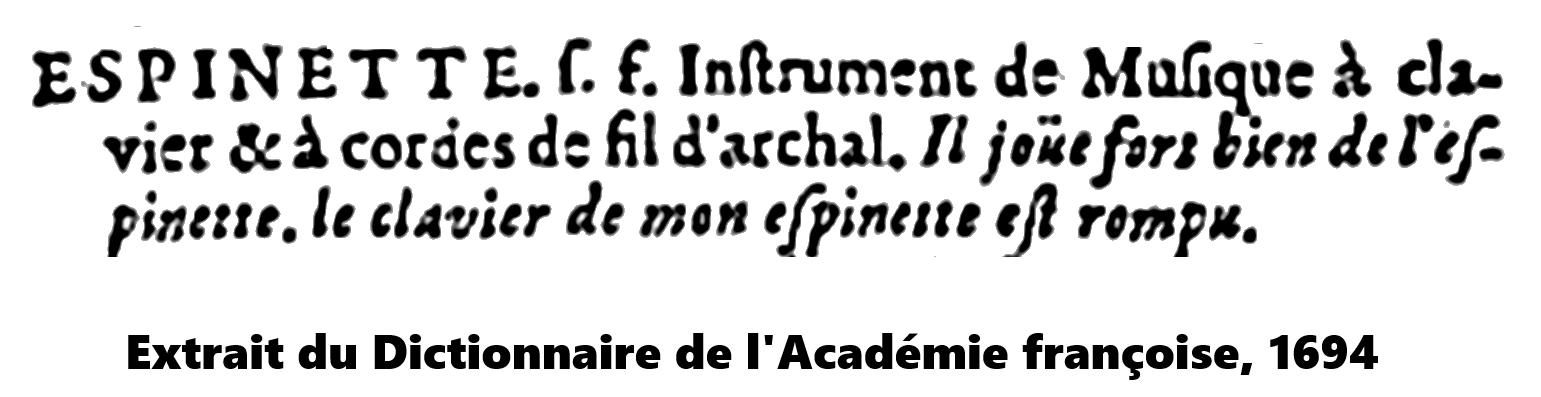 Espinette